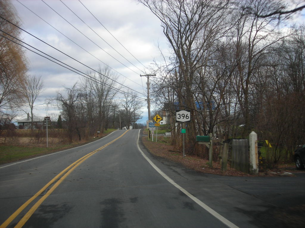 New York State Route 396 heading eastbound at its western terminus with Albany County Route 301. The first reassurrance shield and reference marker are to the right.